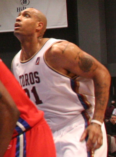 Game action in NBA Development League game between Arkansas RimRockers and Austin Toros at the Austin Convention Center, Austin, Texas, Jan. 27, 2006.